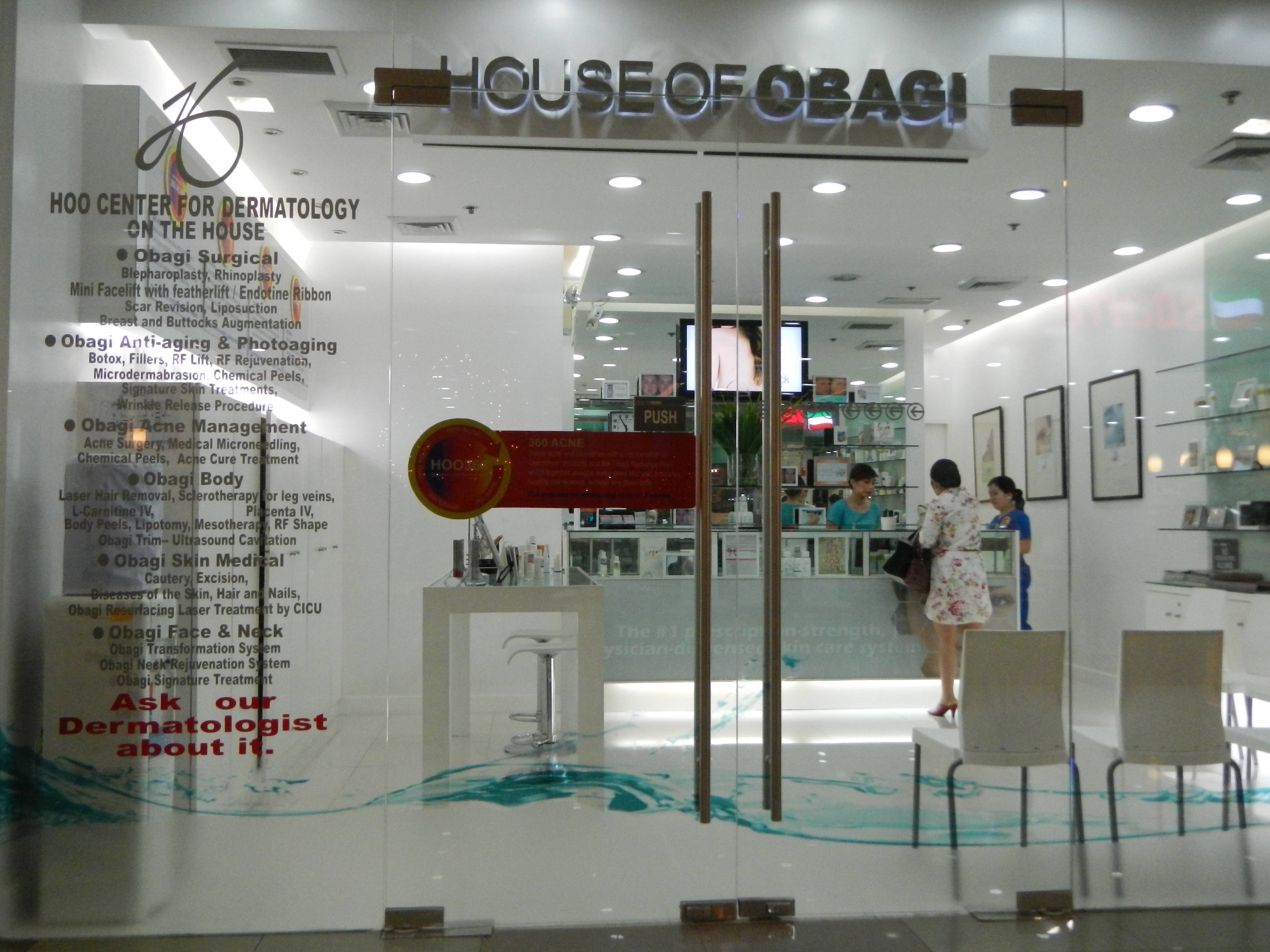 [1]House of Obagi, HOO Dermatology, SM North Edsa[2]